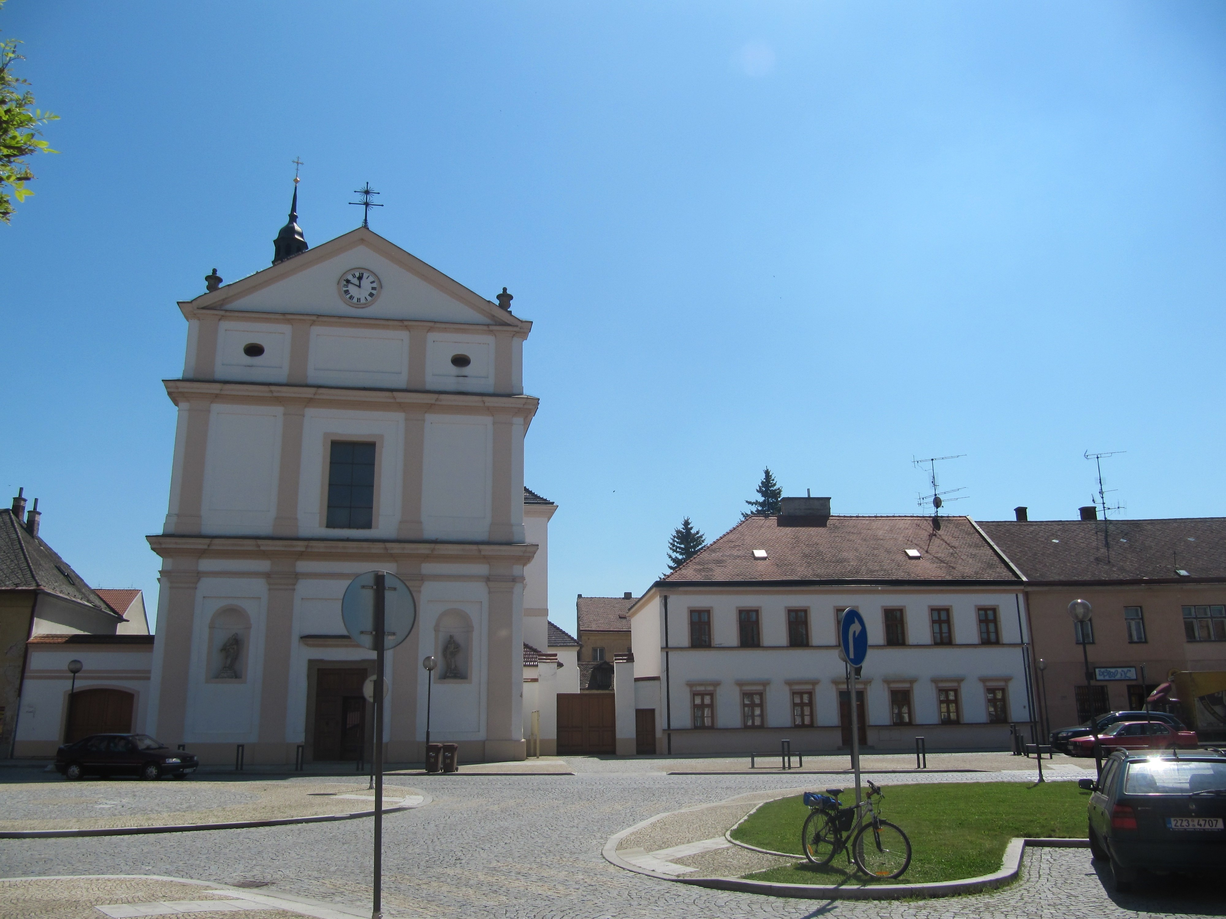 Uherský Ostroh in Uherské Hradiště District, Czech Republic. Náměstí Svatého Ondřeje - square, church and presbytery. This photograph was taken within the scope of the third year of the 'Czech Municipalities Photographs' grant.